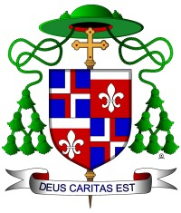 Coat of arms of Josef Koukl, Bishop of Litoměřice